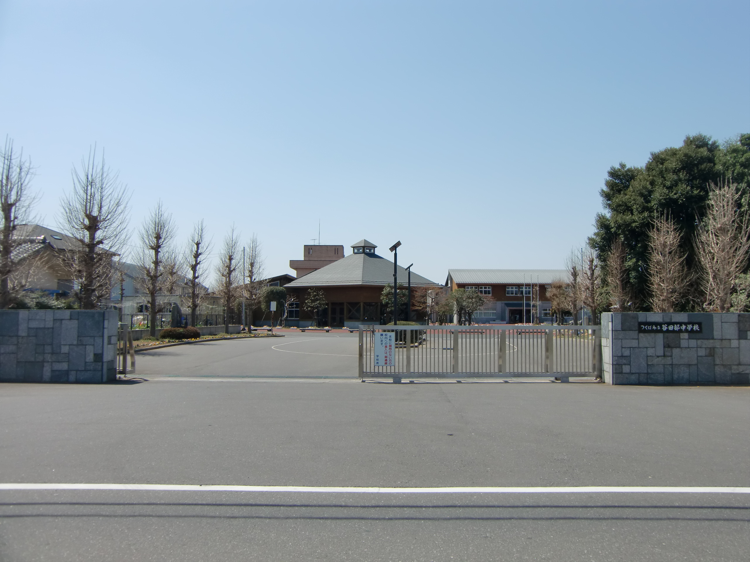 Yatabe junior high school in Yatabe, Tsukuba city, Ibaraki prefecture, Japan.